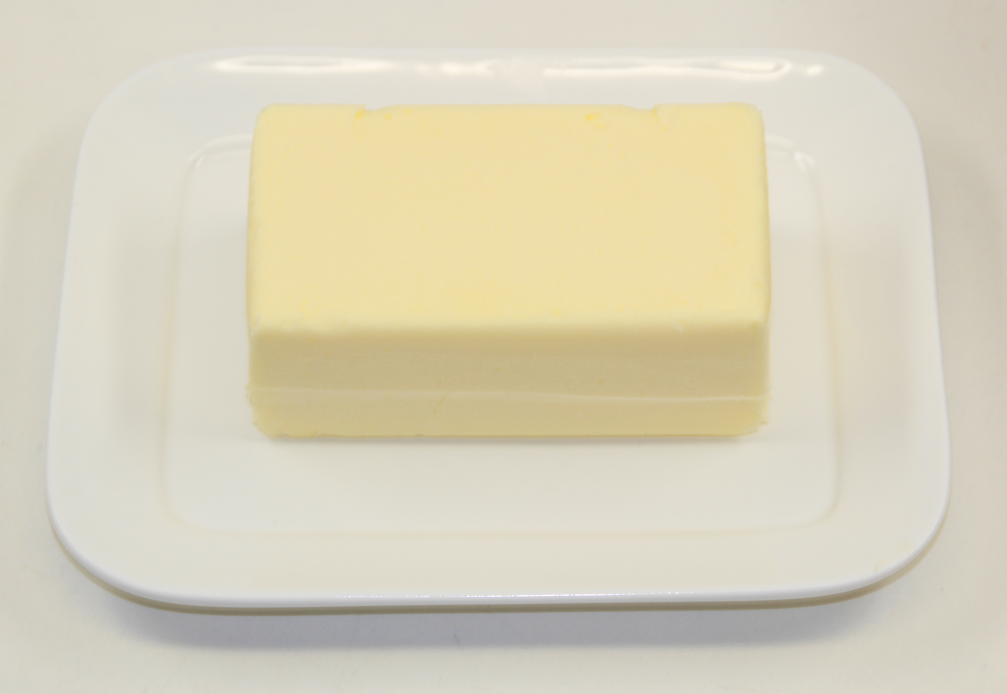 Beurre d'Isigny (Butter from Isigny) in France.